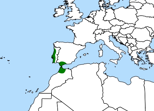 Drosophyllum map. Cropped from Image:Drosophyllum distribution.svg by User:Petr Dlouhý, to show species range more clearly.